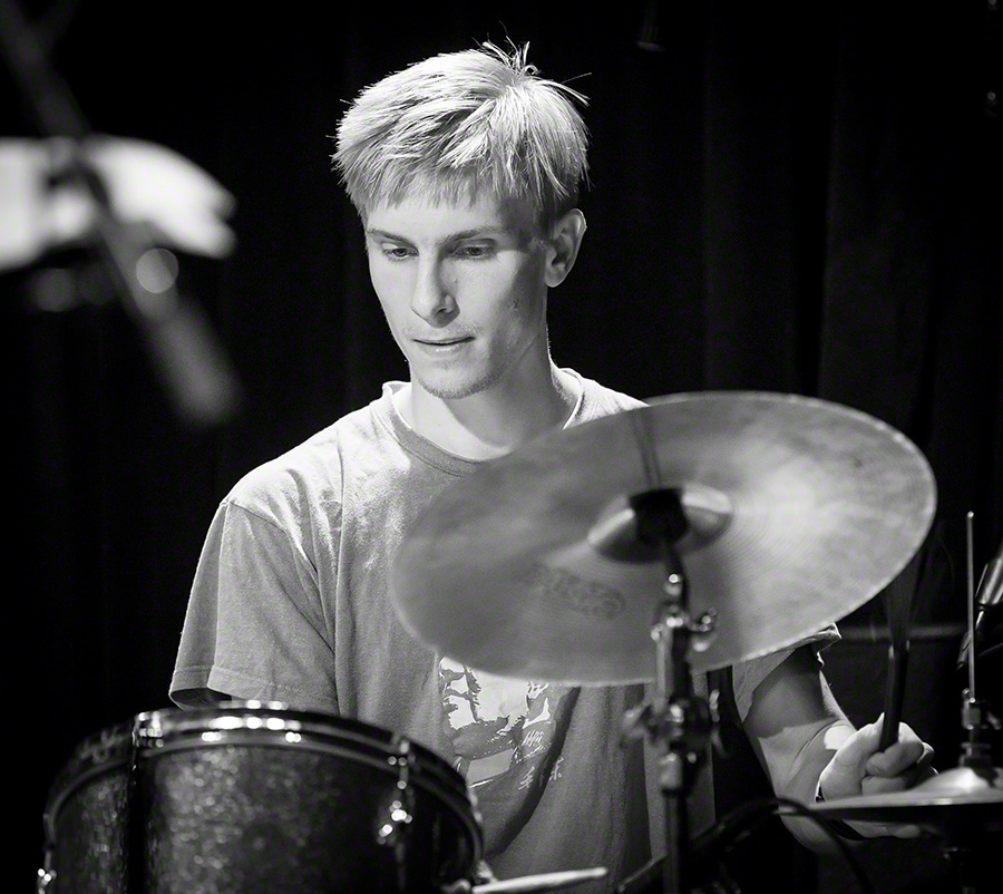 Hans Hulbækmo performs with Ferdigsnakka: Broen og Moskus at the stage of Nasjonal Jazzscene Victoria. The concert was part of the Oslo Jazz Festival in Norway and took place on 15. August 2016. Lineup:Anja Lauvdal (keyboard)Fredrik Luhr Dietrichson (double bass)Hans Hulbækmo (drums)Heida Karine Johannesdottir (tuba)Lars Ove Fossheim (guitar)Lars Saabye Christensen (spoken words)Kjartan Fløgstad (spoken words)Vigdis Hjorth (spoken words)Geir Gulliksen (spoken words)Ingvild Schade (spoken words)